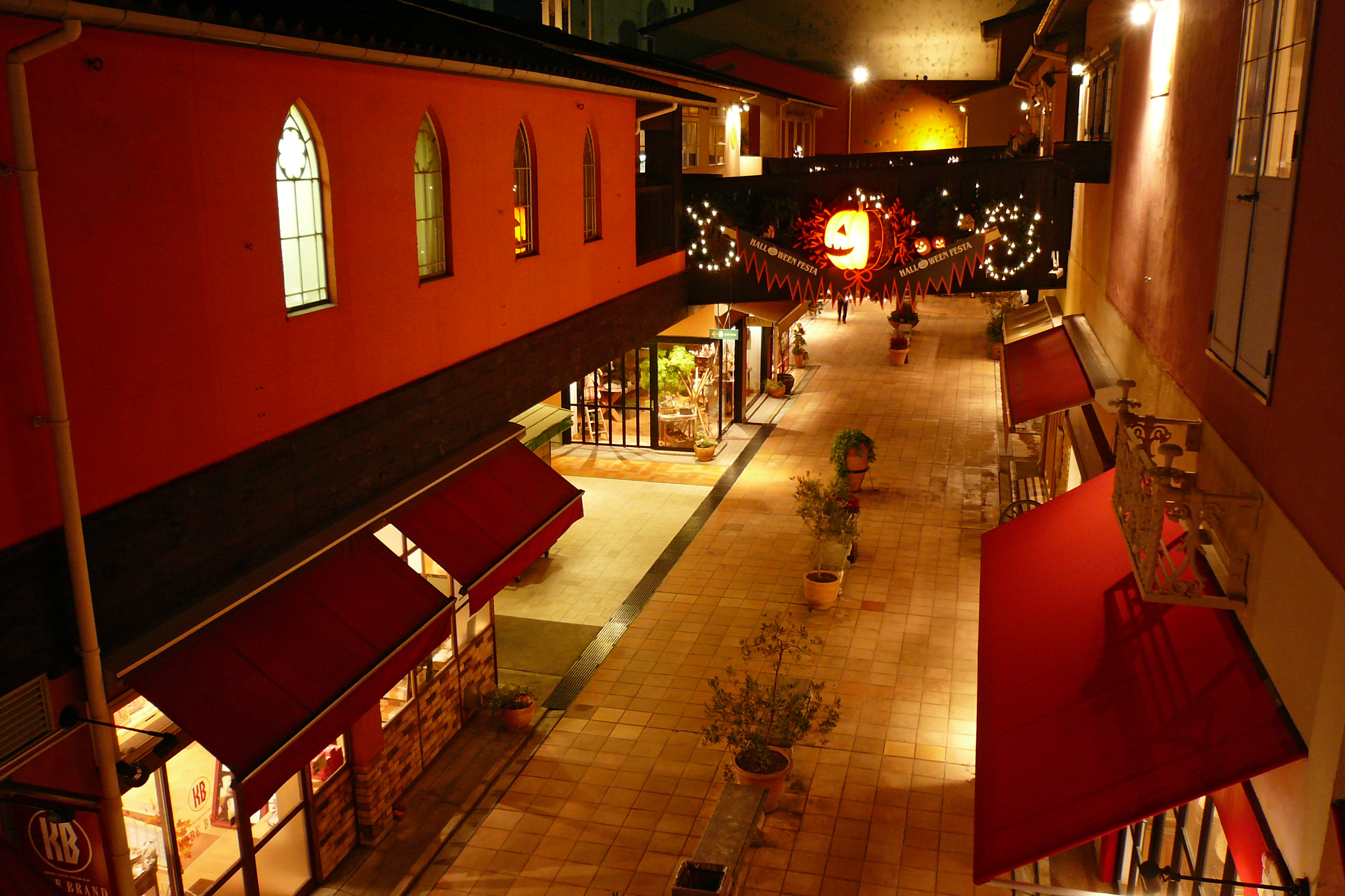 "MOSAIC" of Harborland in Kobe, Hyogo prefecture, Japan